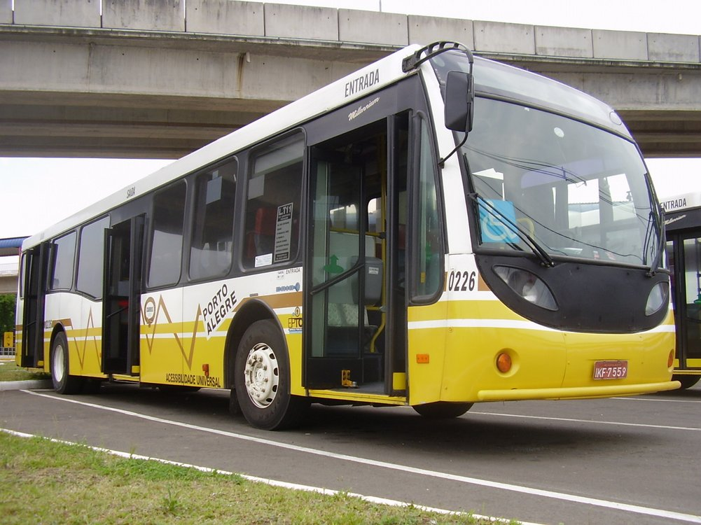 CAIO Millennium Low Entry bus (reg. IKF-7559, #0226) with Scania L94UB chassis in Porto Alegre, Brazil. Companhia Carris Porto-Alegrense operator.